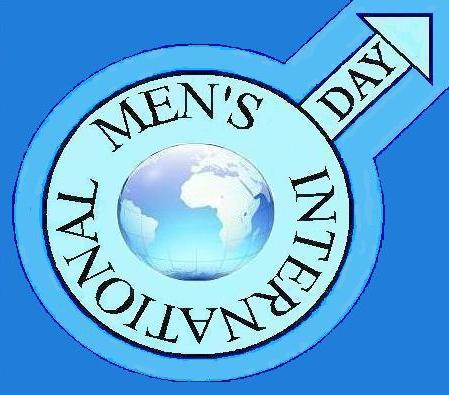 International Men's Day symbol - created by 'IMD Nonprofit' - global promotors of International Men's day. The image was created in its entirety by myself (Jason Thompson IMD historian and IMD-Nonprofit Associate). This image is a free use public domain image. Date